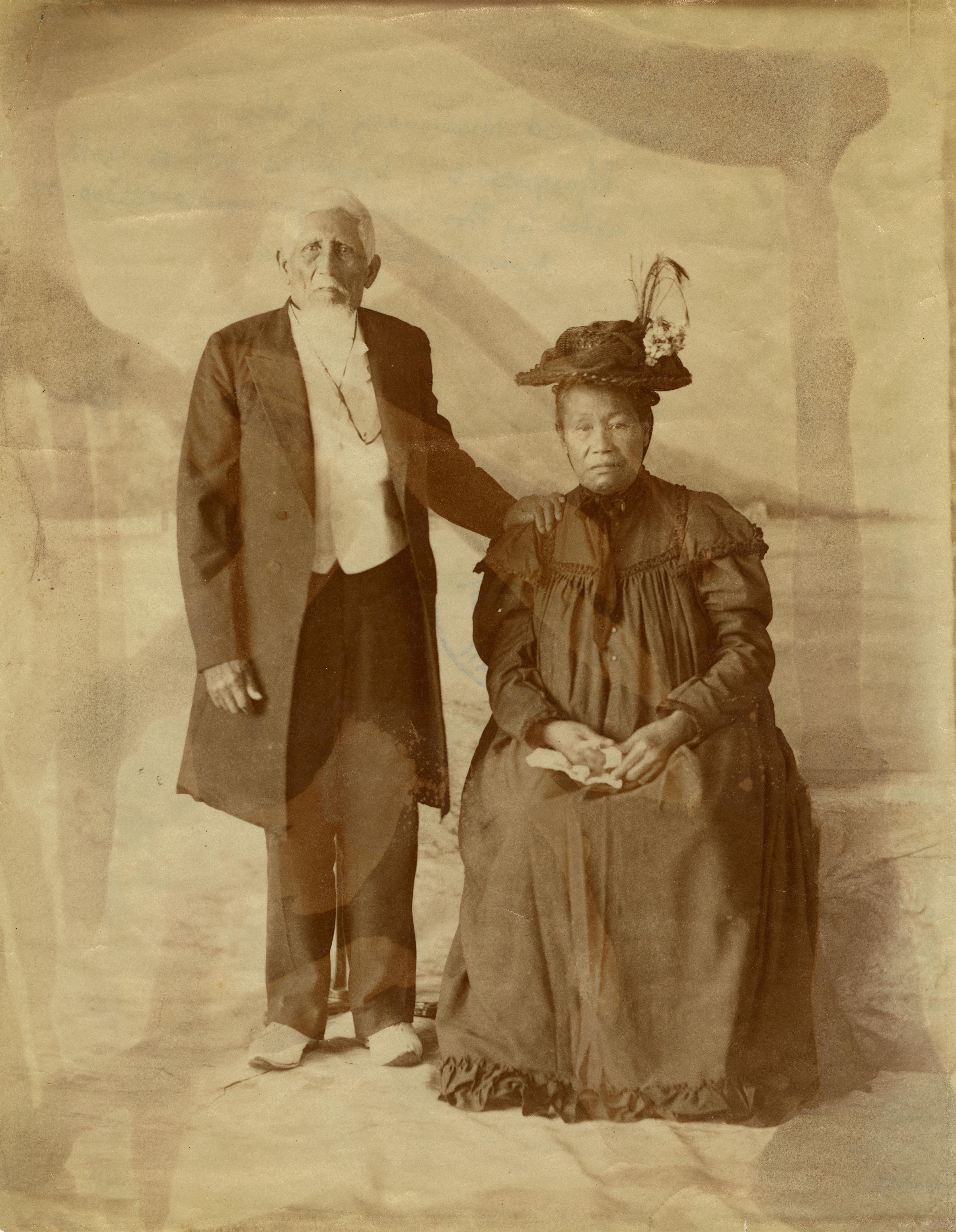 James Hunnewell Kekela (1824–1904) and wife Naomi Kaenaokane Maka Kekela (1826–1902). Reverend Kekela was the first ordained Hawaiian minister and celebrated missionary to the Marquesas Island. He was presented with gold watch by President Lincoln for rescuing an American seaman from cannibals.